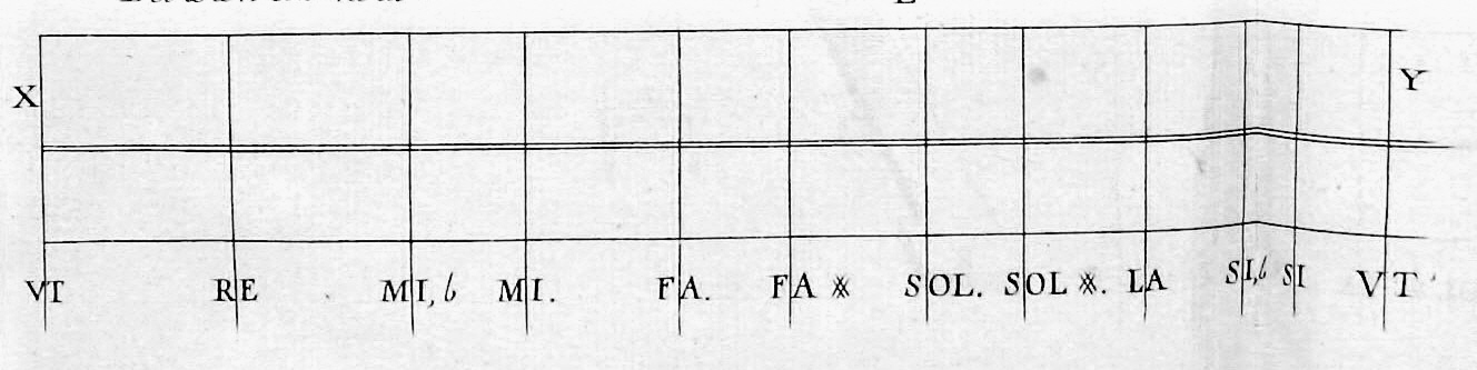 Proportions of Loulié's tuning chart, from engraving in "Machines et inventions approuvées par l'Académie Royale des Sciences" (Paris, 1735)